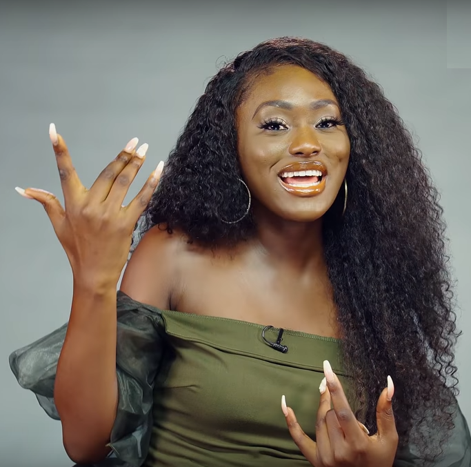 Linda Osifo on NdaniTV TGIF show 22 March 2019